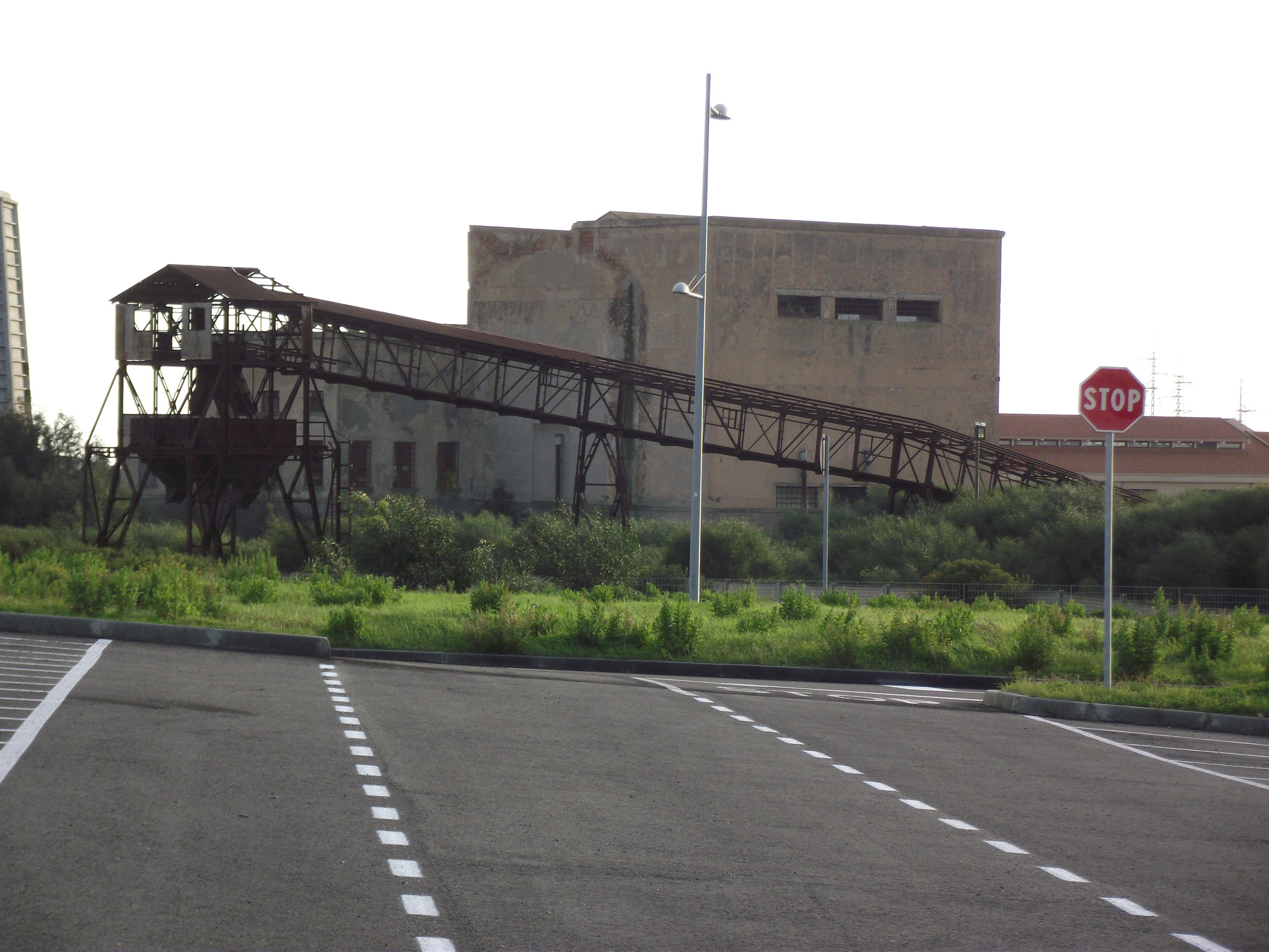 The ruins of the coal hopper used to fill the FS trains inside the former Serbariu coalmine, in Carbonia, Sardinia, Italy.